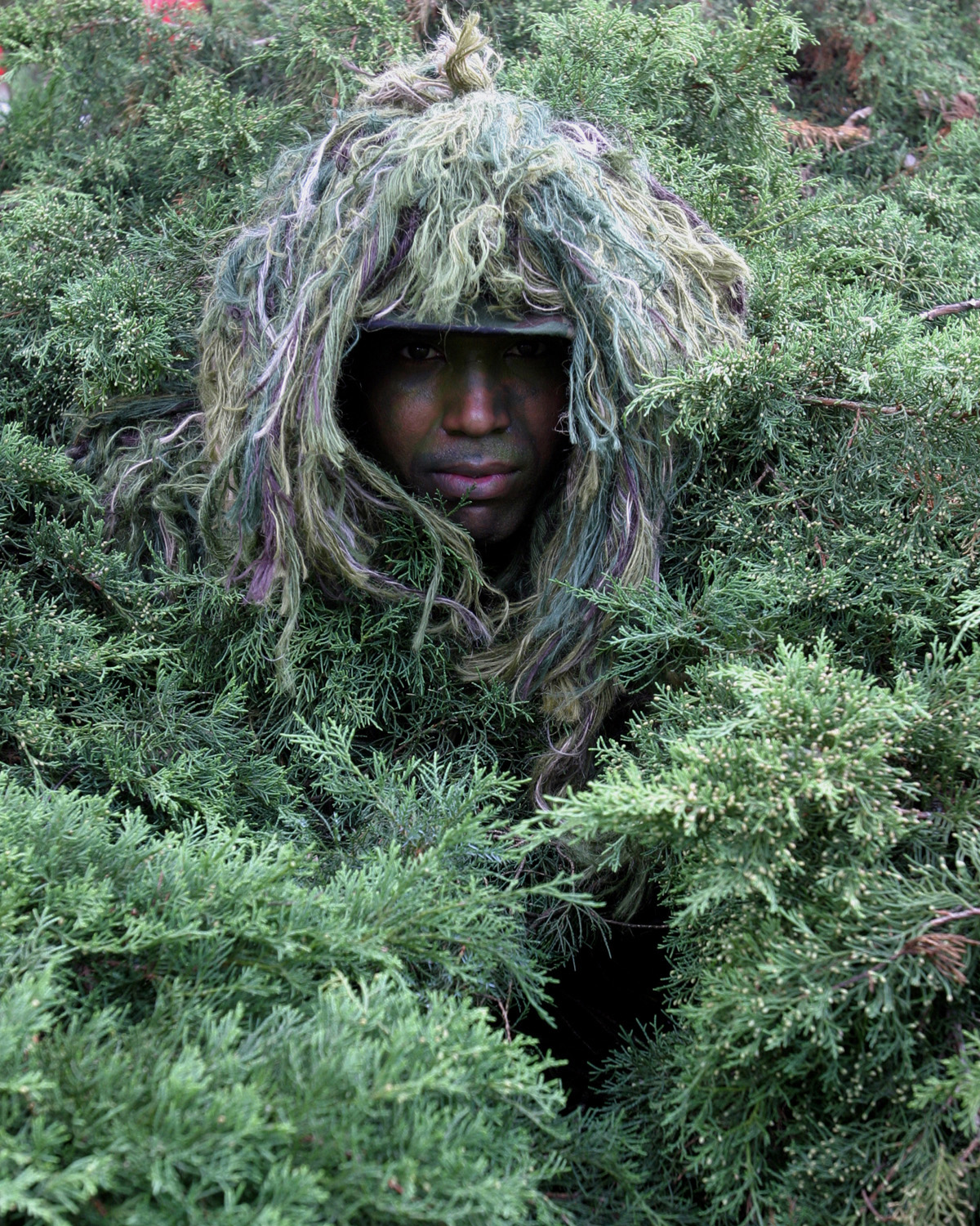 U.S. Army Staff Sgt. Anthony R. Purnell fades into his background as he demonstrates the use of the ghillie suit in camouflage techniques during the U.S. Army Europe's Land Combat Expo at the Patrick Henry Village Pavilion in Heidelberg, Germany, on Sept. 28, 2004. Purnell is assigned to Echo Company, 51st Infantry Company, Long Range Surveillance, V Corps.